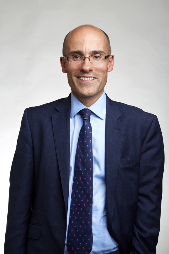 (Robert) Charles Swanton is British physician scientist specialising in oncology and cancer research Attribution: The Royal Society